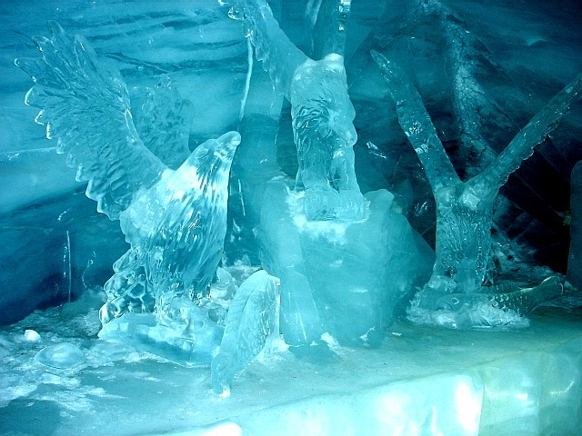 Eispalast